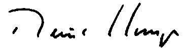 Signature of German poet Reiner Kunze